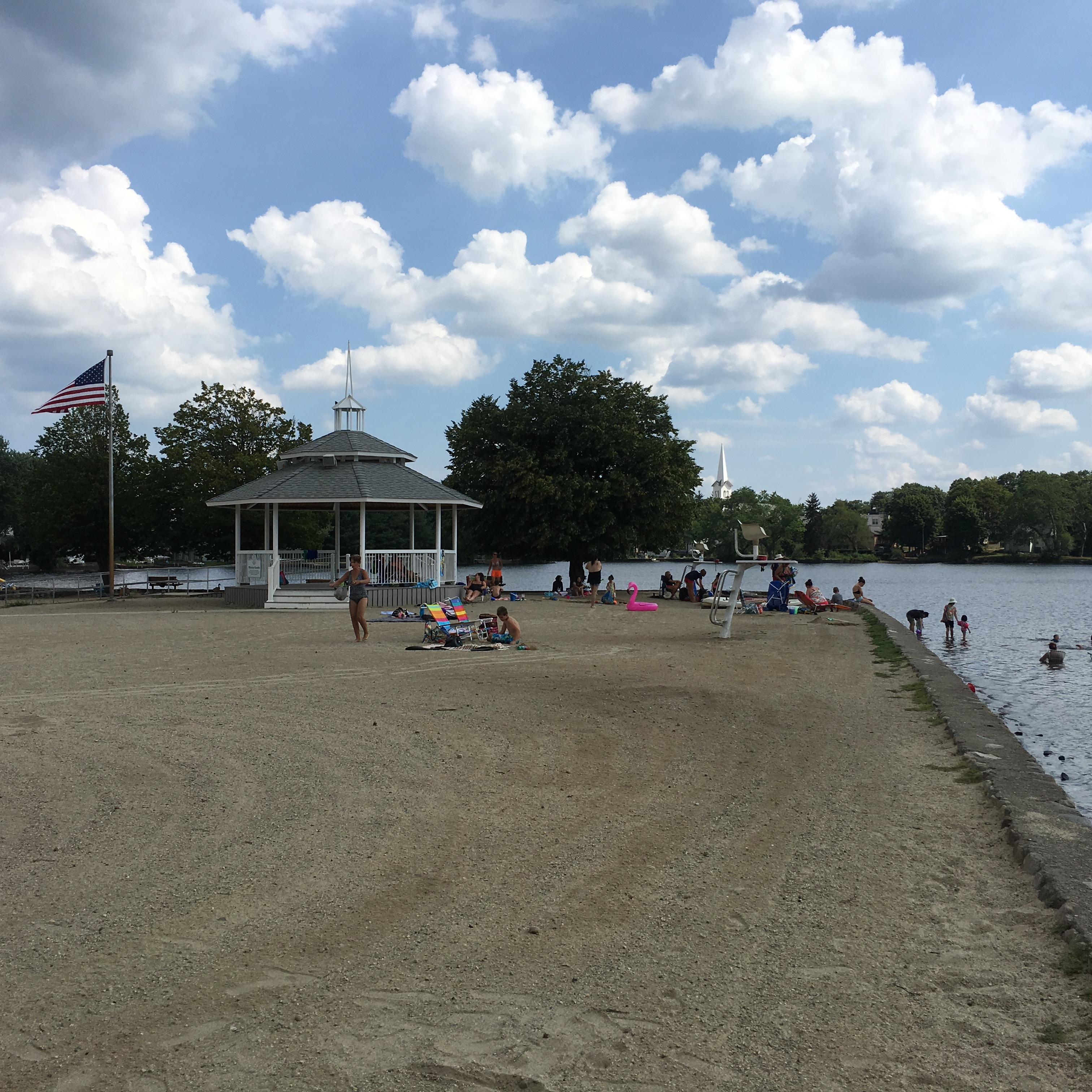 Photo of Sunset Lake, Braintree, Mass 02184. The steeple in the background is part of the South Congregation Church.